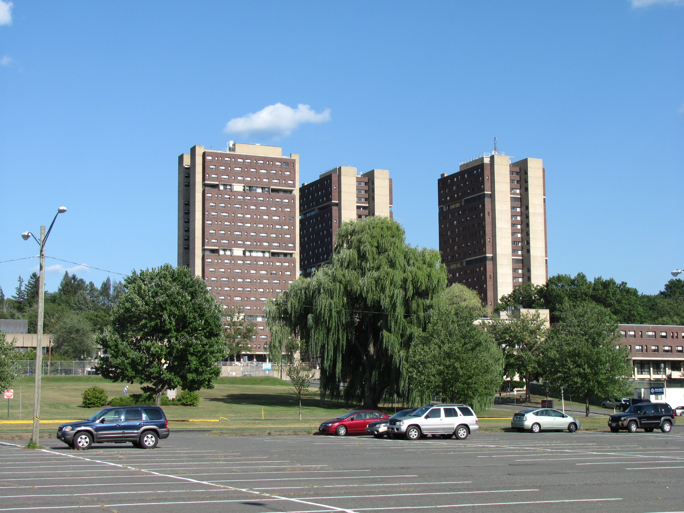 J.Q. Adams Hall, J. Adams Hall and Washington Hall, UMass Amherst, Amherst Massachusetts